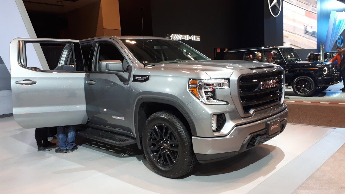 This is the new GMC Sierra